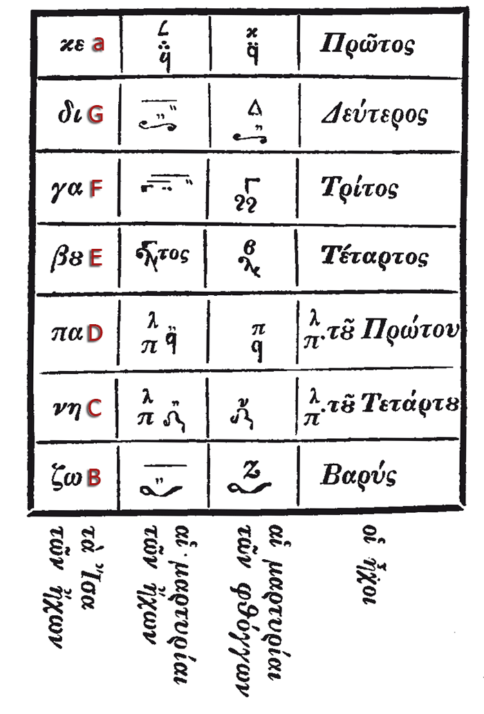 The disposition of the eight modes (main and medial signatures) of the Byzantine Octoechos and their basis tones in the diapason system, according to Chrysanthos of Madytos and the New Method (Neume Notation since 1814).